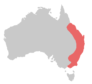 Summary Distribution map of the Glossy Black Cockatoo (Calyptorhynchus lathami) Based on Image:BlankMap Australia.png Kiwifruitboi 06:42, 8 January 2006 (UTC)